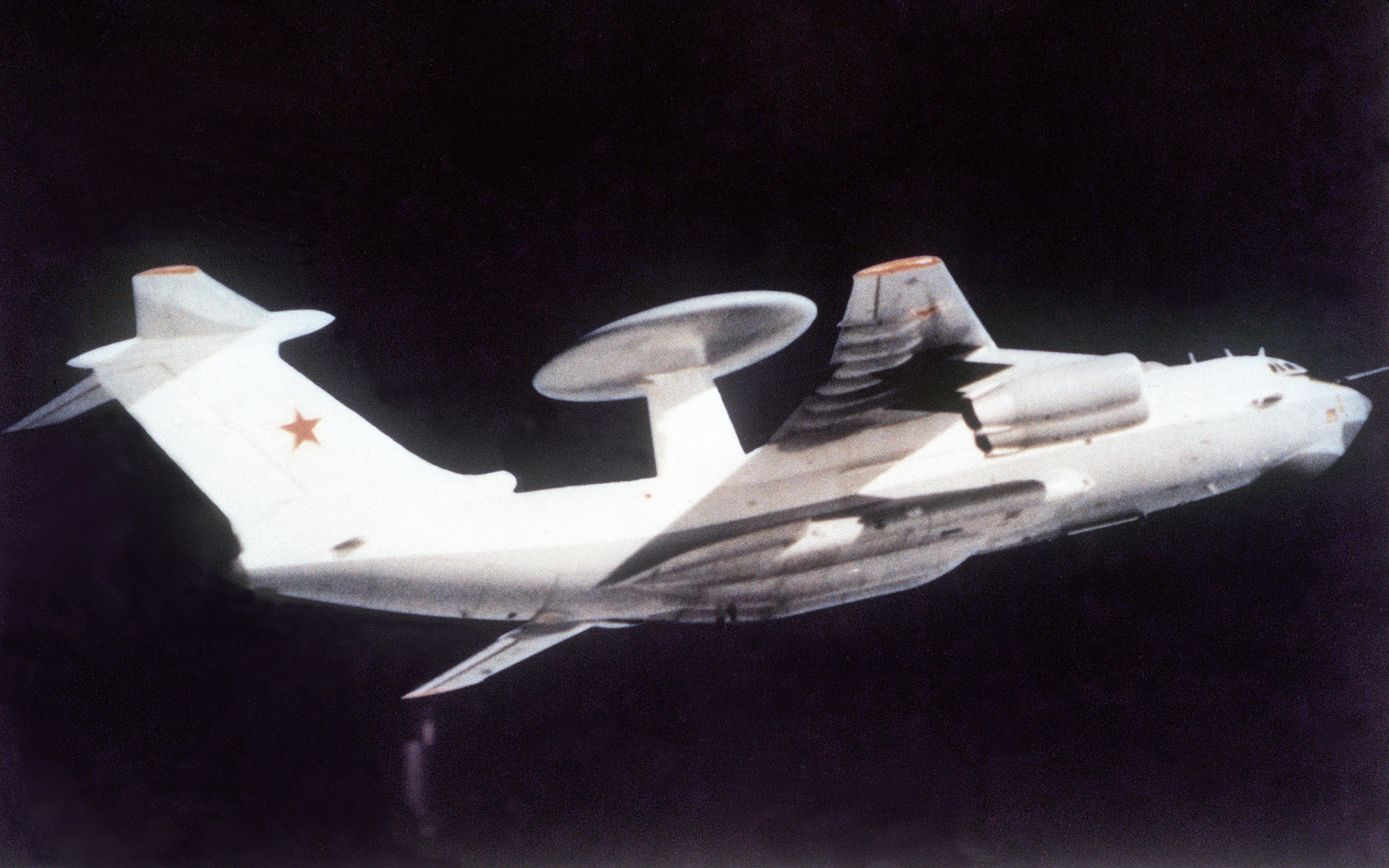 An air-to-air right side view of a Soviet Mainstay airborne warning and control system (AWACS) aircraft.